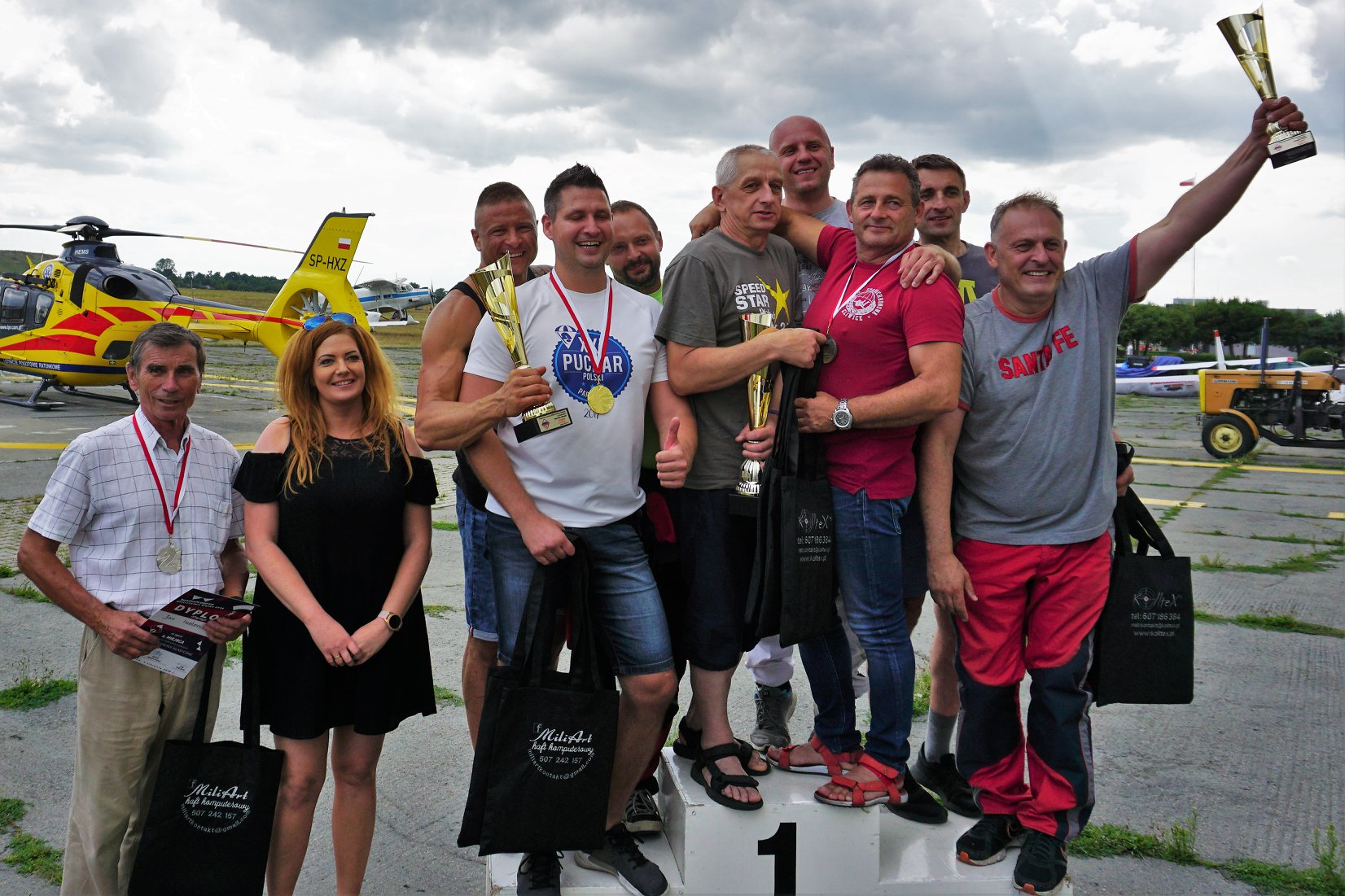 Skydiving Championships of Silesia in 2019